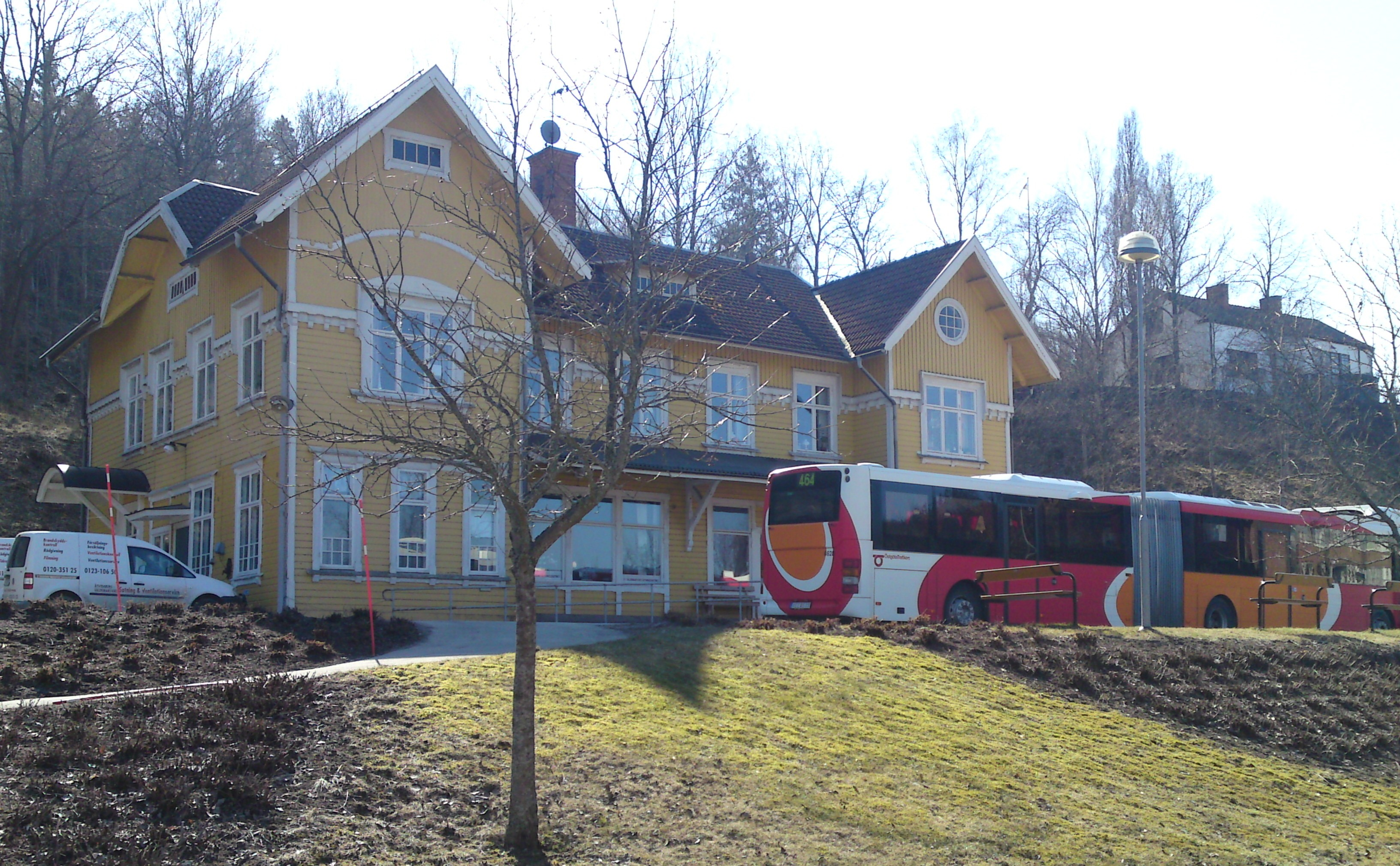 Valdemarsvik's old train station, now bus station